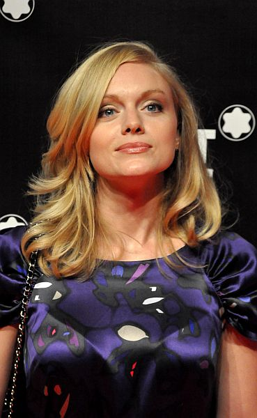 Actress Christina Cole attends "To John - With Peace & Love" Global Launch Of The Montblanc John Lennon Edition on September 12, 2010 at Jazz at Lincoln Center in New York City. (Photo © Nick Stepowyj)